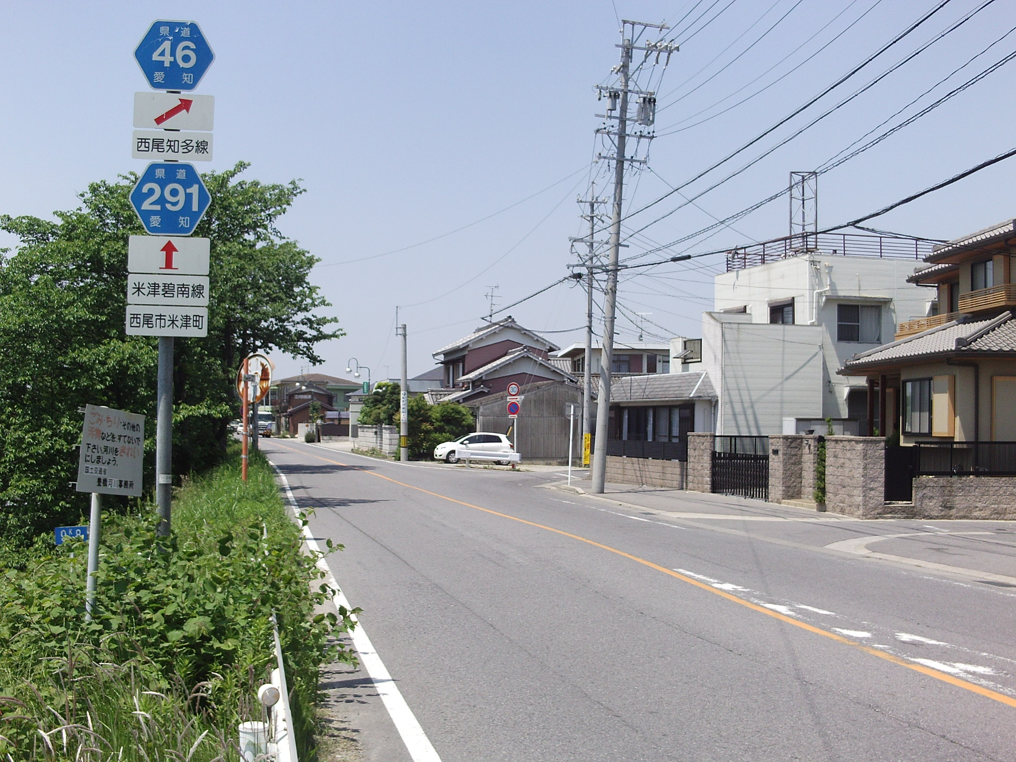 Aichi prefectural road No.291 in Yonedzucho, Nishio, Aichi.